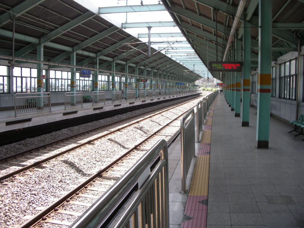 Hannam Station platform